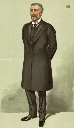 Caricature of Charles Lyttelton, 8th Viscount Cobham. Caption read "Cricket, Railways and Agriculture".